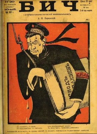 Alexander Kerensky by Viktor Deni